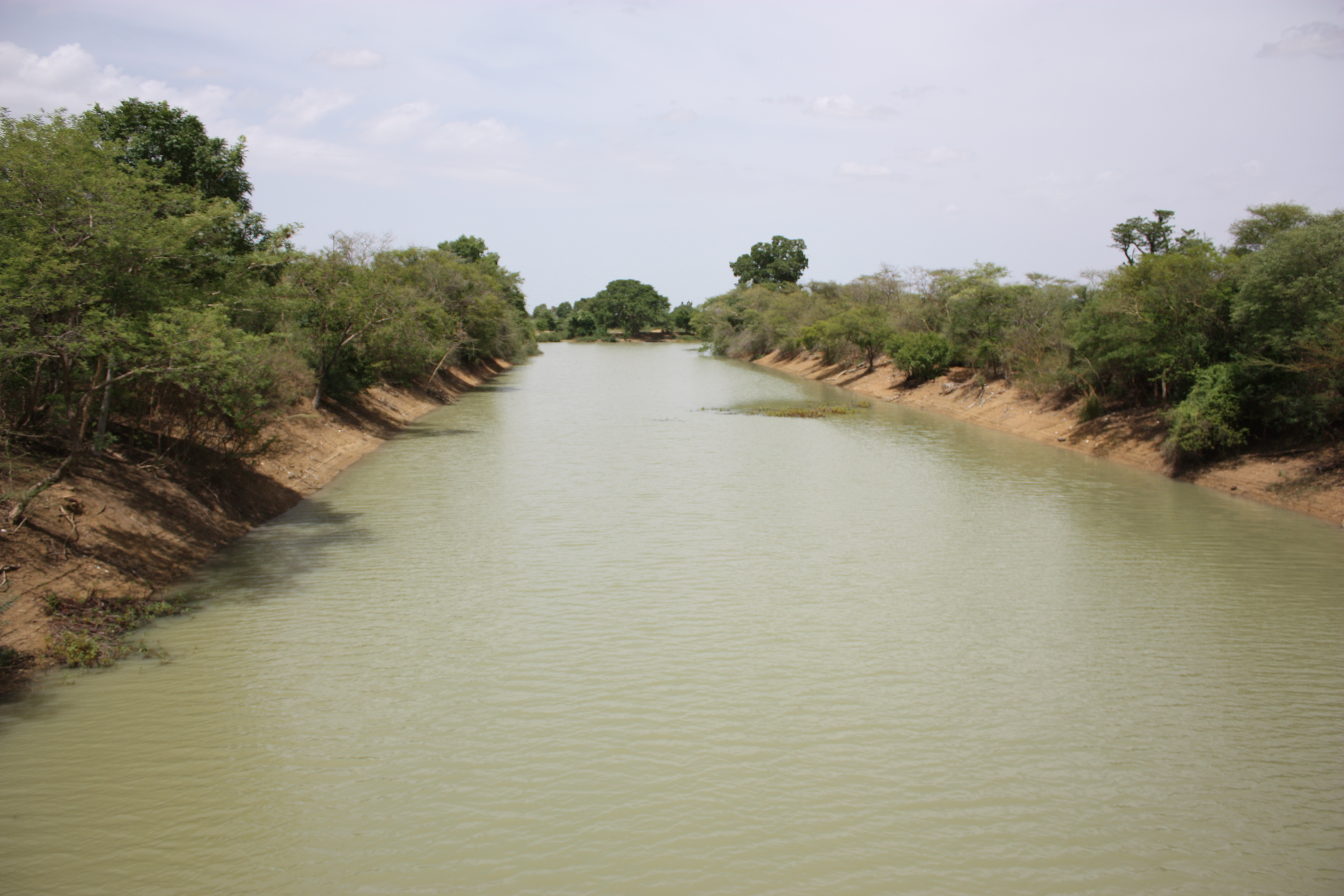 Mouhoun River near Dedougou, Burkina Faso